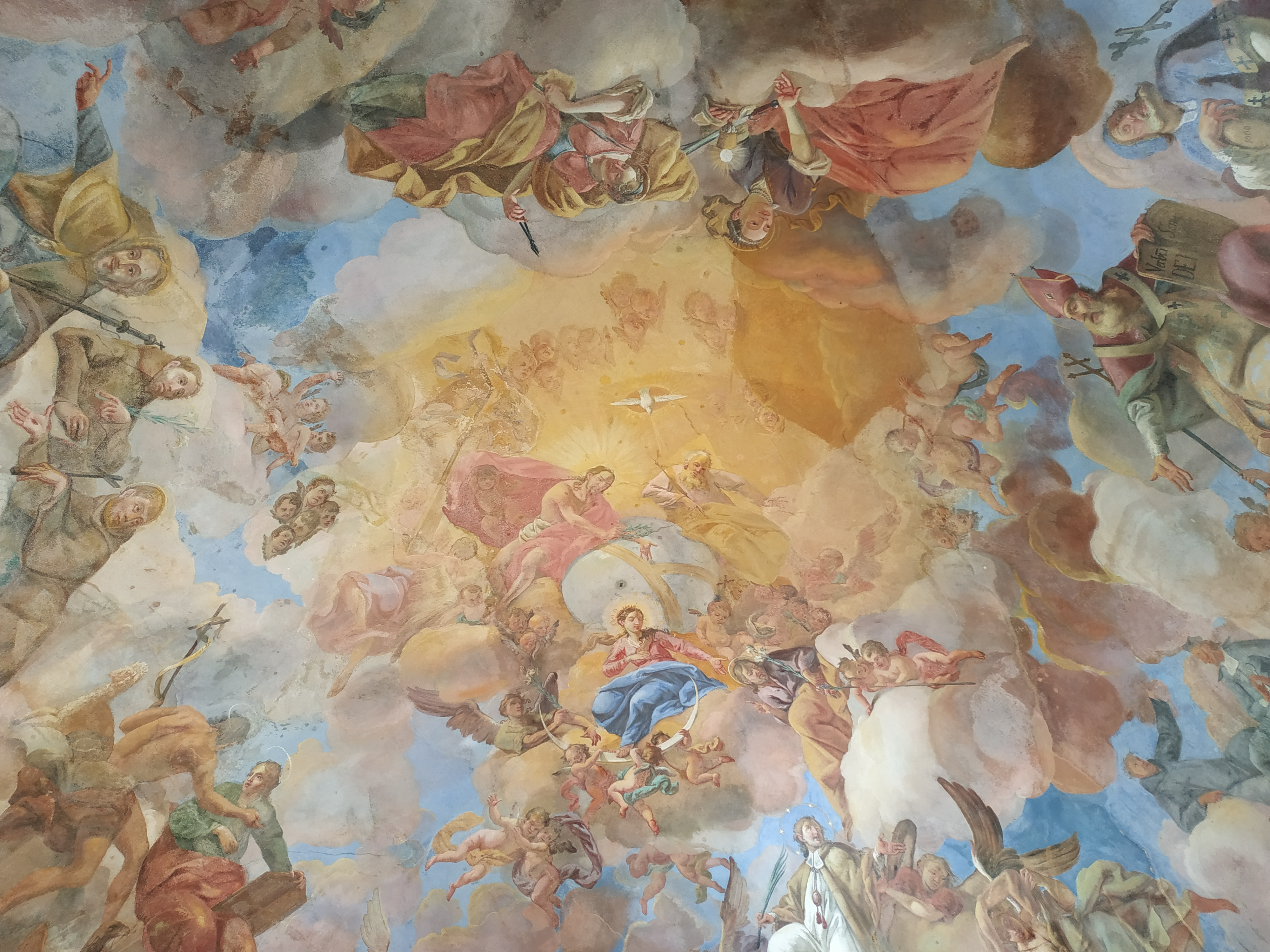 John of Nepomuk chapel in Sarny Palace (Schloss Scharfeneck), Ścinawka Górna, Lower Silesian Voivodeship, Poland